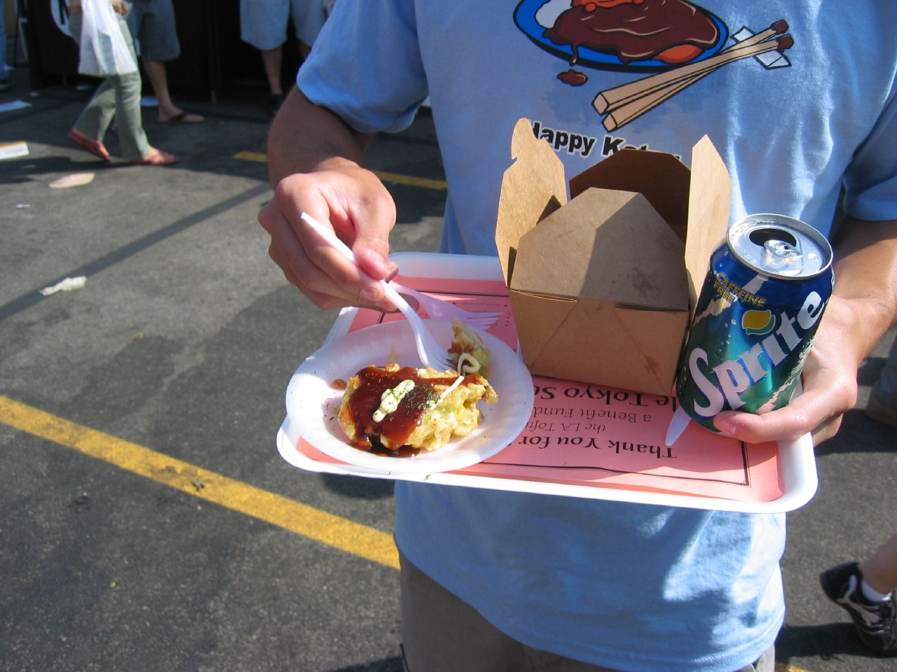 A person eating at the Los Angeles Tofu Festival in 2005.